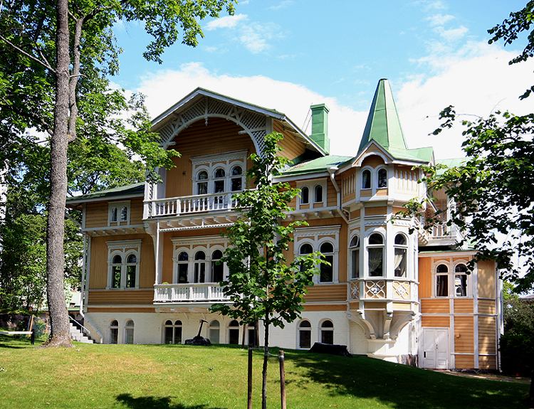 Kalliolinnantie 7, Helsinki, Finland. Architect Theodor Decker. Built 1883.